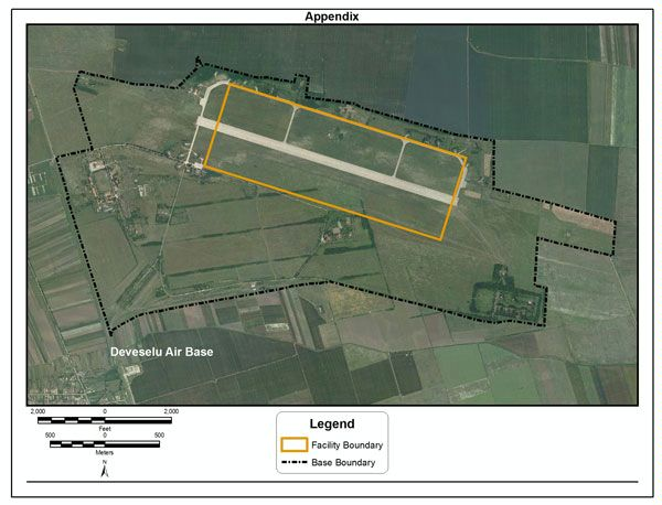 US State Department map of the Deveselu base, Romania.